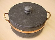 Soapstone pot of 5 liters Author is Gerd Langer, Germany Source is own work Camera is Sony DSC-P1